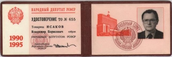 Identity cards of the people's Deputy The Congress of people's deputies of the Supreme Council of the RSFSR - Russian Soviet Federative socialist Republic